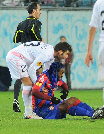 Antonio Nocerino and Vágner Love in CSKA Moskow-Palermo